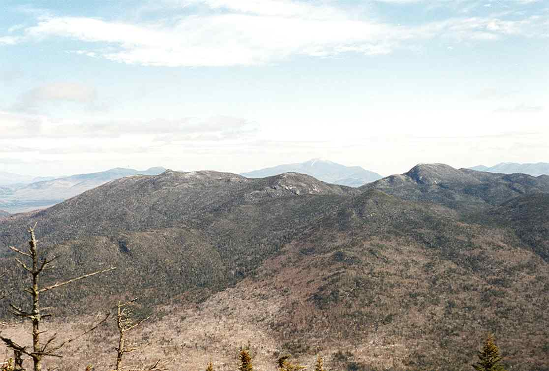 Seward Mountains, Adirondacks, NY, as seen from Mt. Seymour